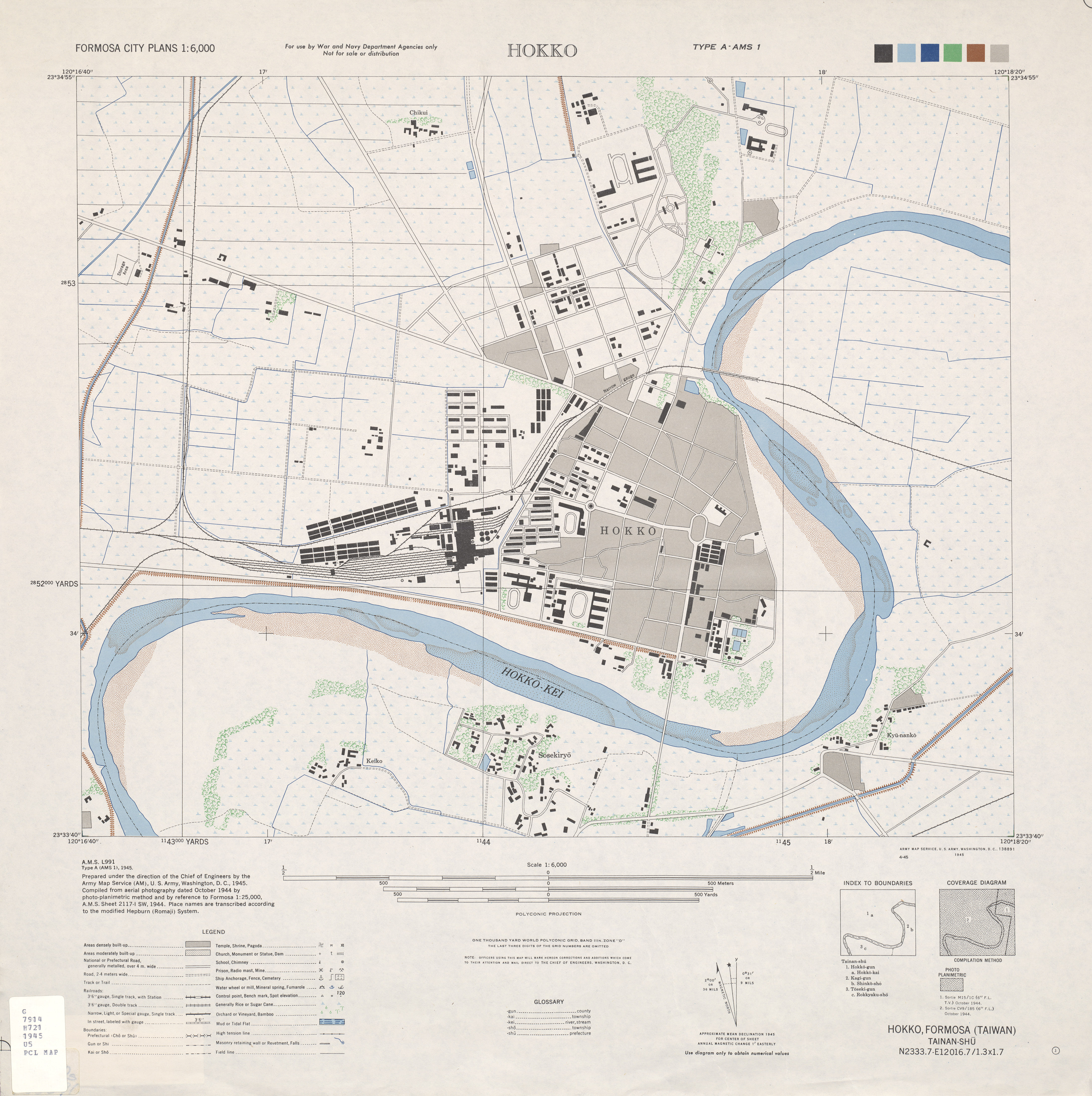 Hokko 1:6,000 1945